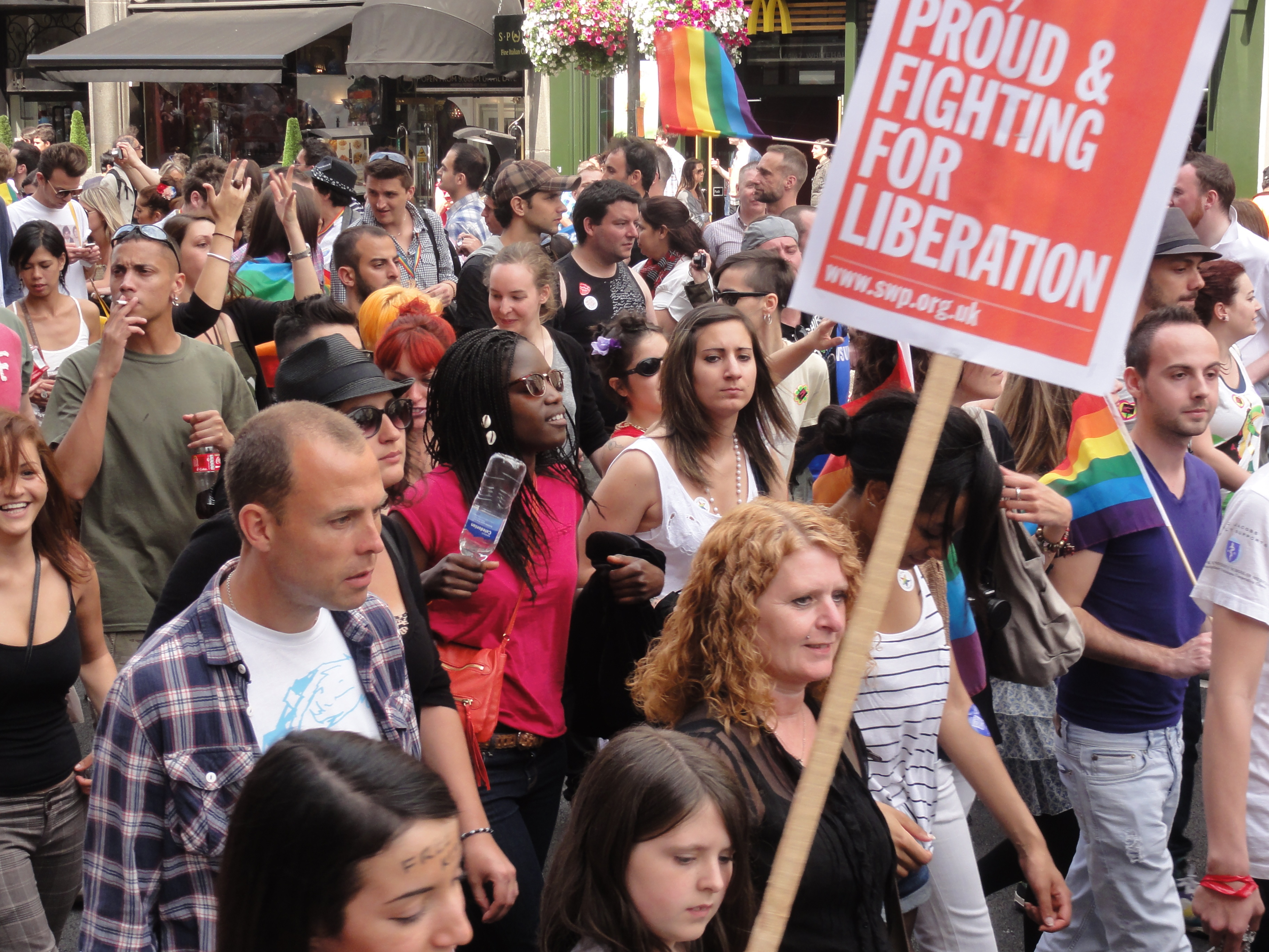 Pride London 2011, near Whitehall.